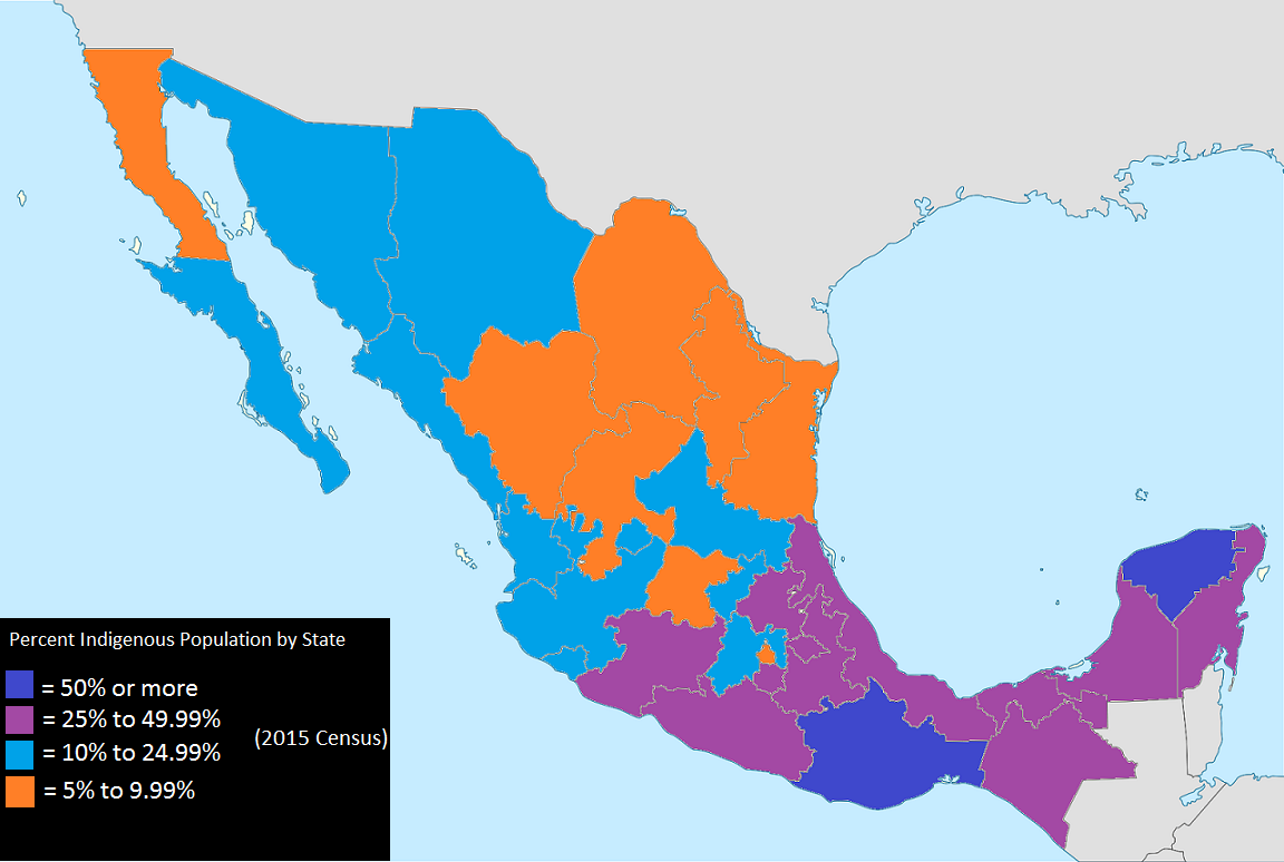 Indigenous Population Percentage of Mexico by State 2015